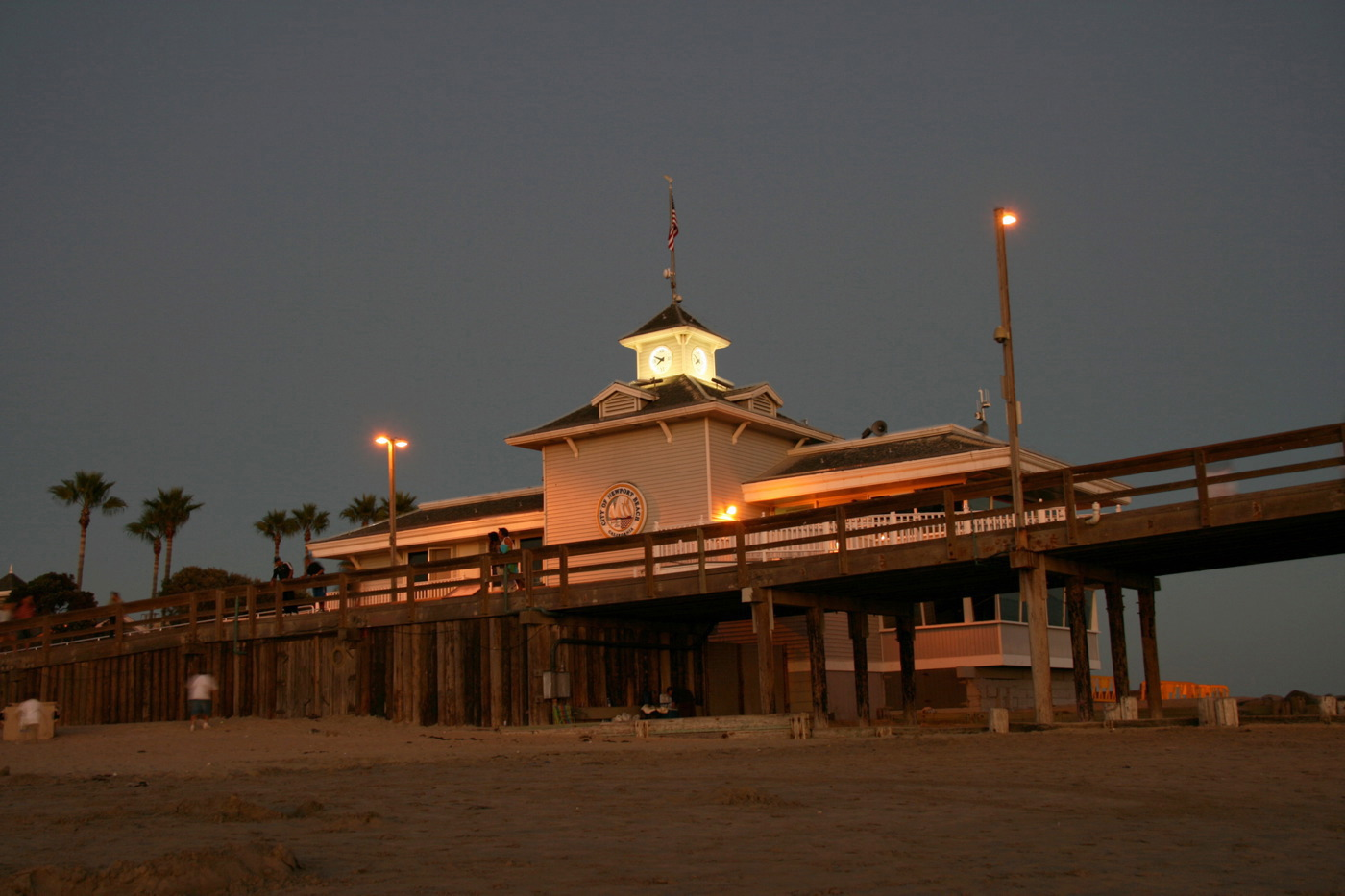 The Lifeguard station at the base of the Newport Pier in Newport Beach, California.